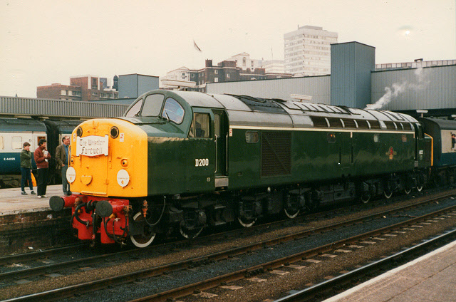 The Whistler Farewell railtour at Leeds Whistler was a nickname for the class 40 diesel locomotives, on account of the sound of their engines. The class, which had generally been used for freight rather than passenger duties, was being withdrawn in the mid-80s. This example, 40122, had been repainted in its original 1950s green livery with its original number D200 in order to run a "farewell" tour over the Leeds-Carlisle line.